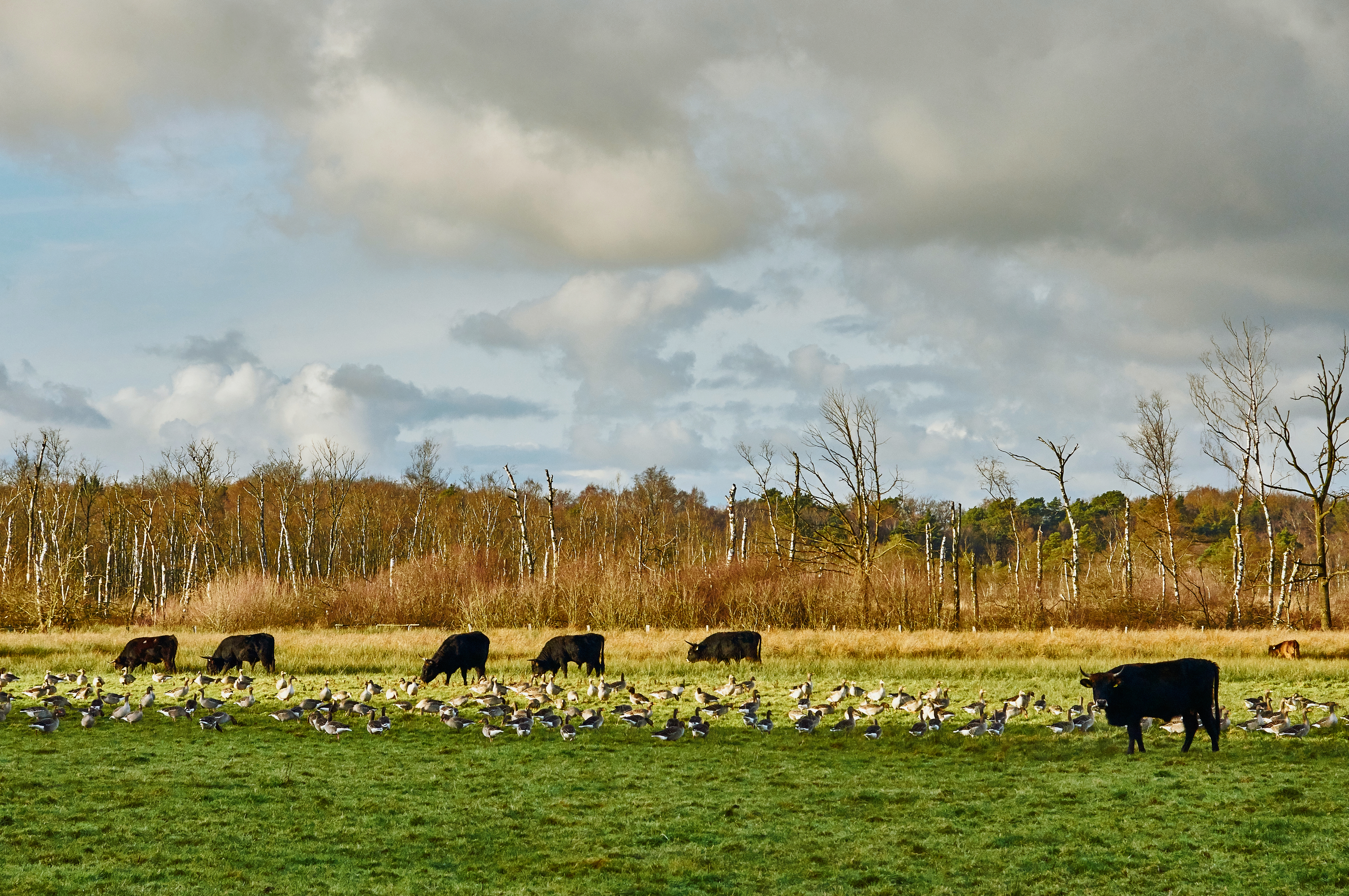 Nature reserve Burlo-Vardingholter Venn und Entenschlatt, Borken, Germany.